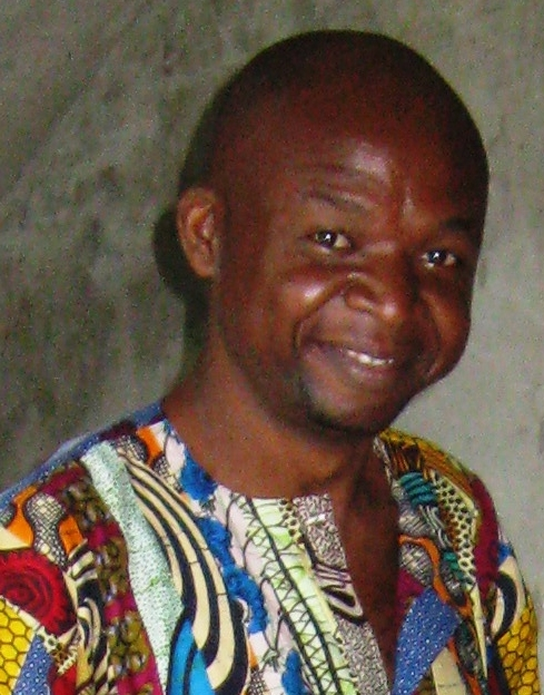 Goddy runs an art center in Cameroon called Art Bakery.